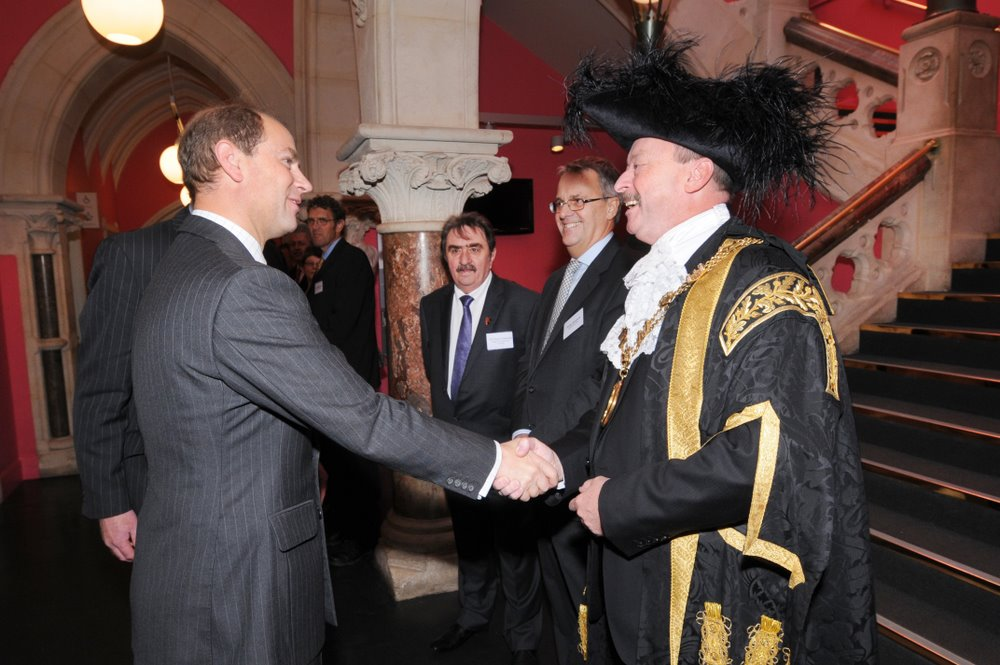 Prince Edward, Earl of Wessex meets the Mayor of Exeter in the Queen Street entrance to the Royal Albert Memorial Museum